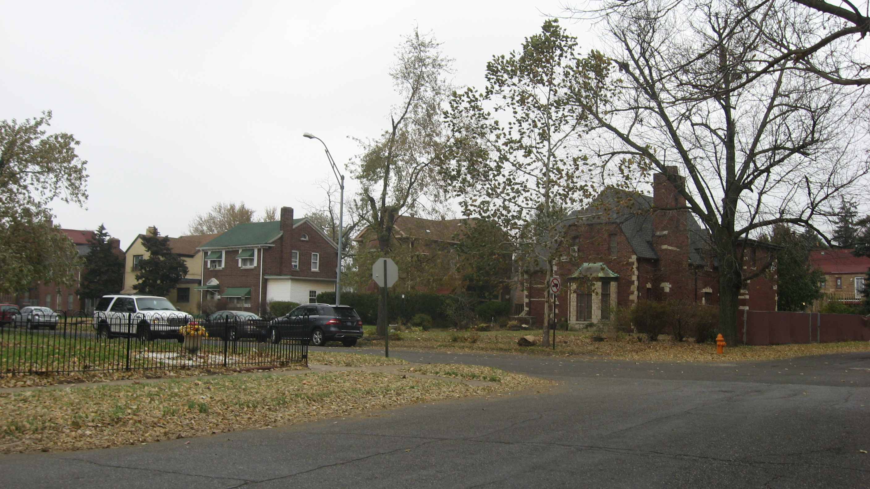 Houses on the eastern side of McKinley Street north of the Sixth Avenue intersection in Gary, Indiana, United States. This neighborhood is part of the Horace Mann Historic District, a historic district that is listed on the National Register of Historic Places.